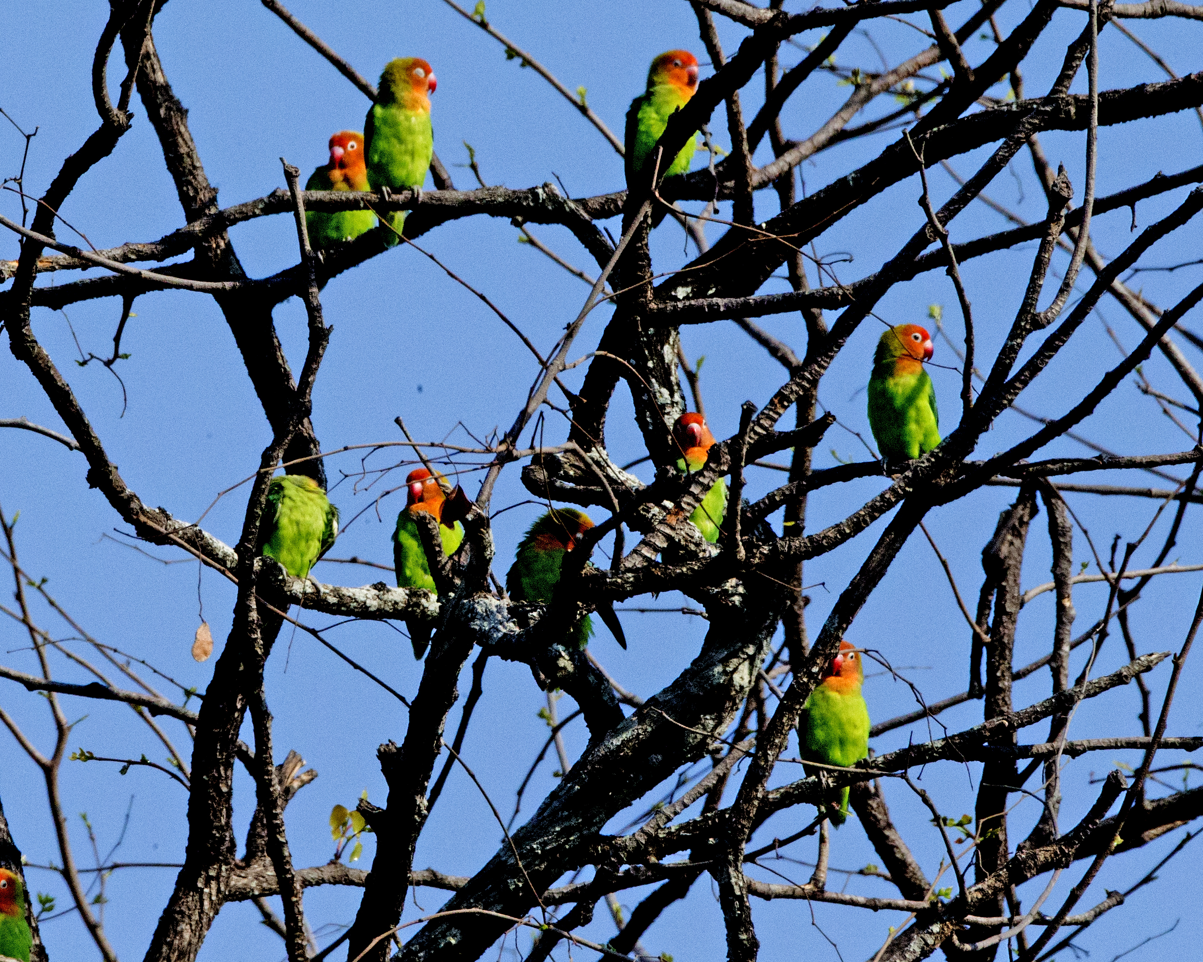 Lilian's Lovebird Agapornis lilianae Liwonde, Malawi October 2015